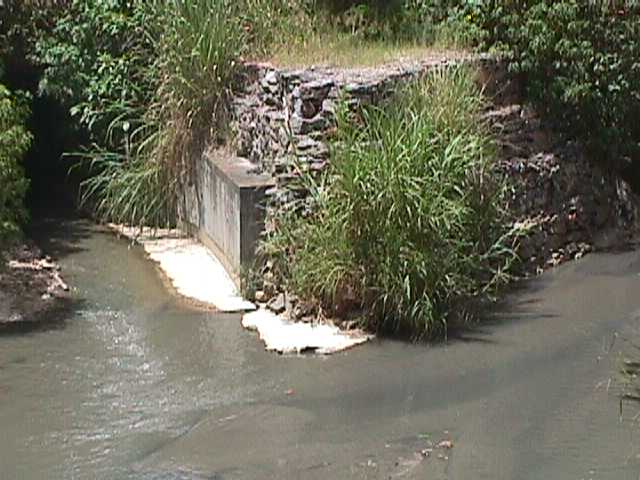 The confluence of the Boyer and Guairita streams in Caracas, Venezuela.